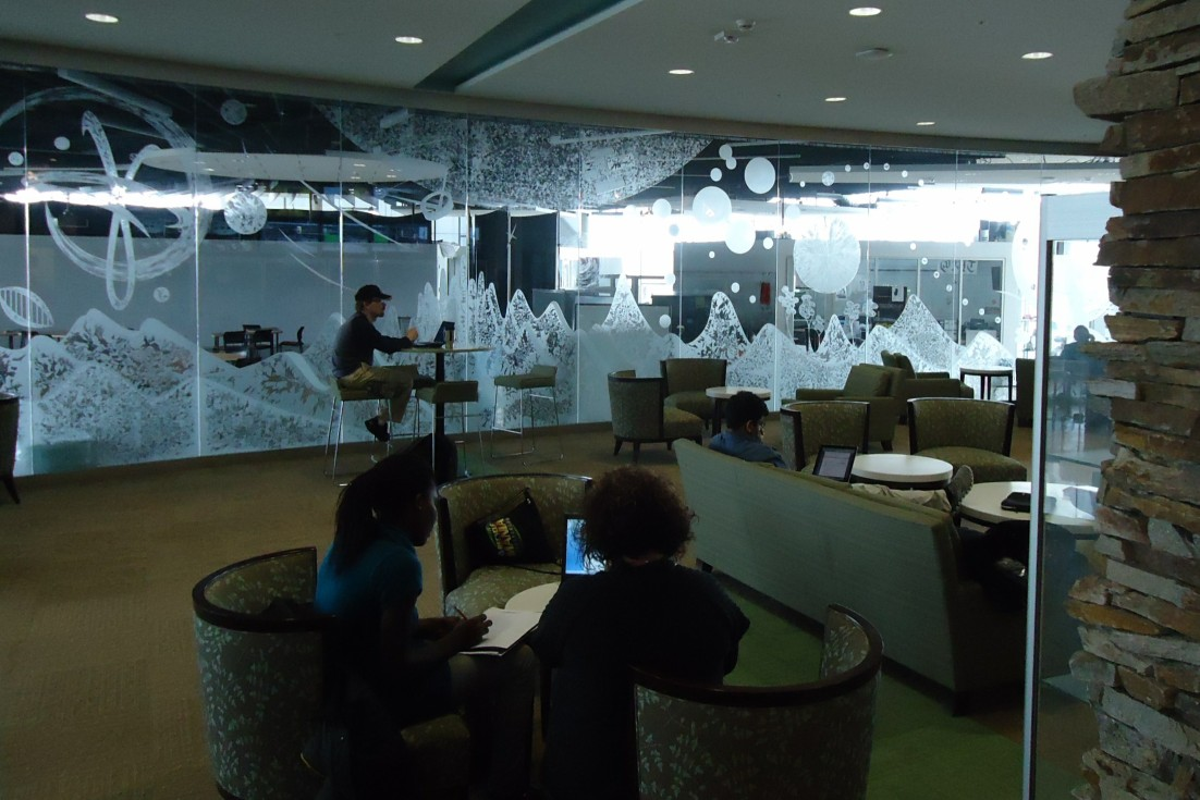 Student lounge in the Student Innovation Hall (87) at the Rochester Institute of Technology